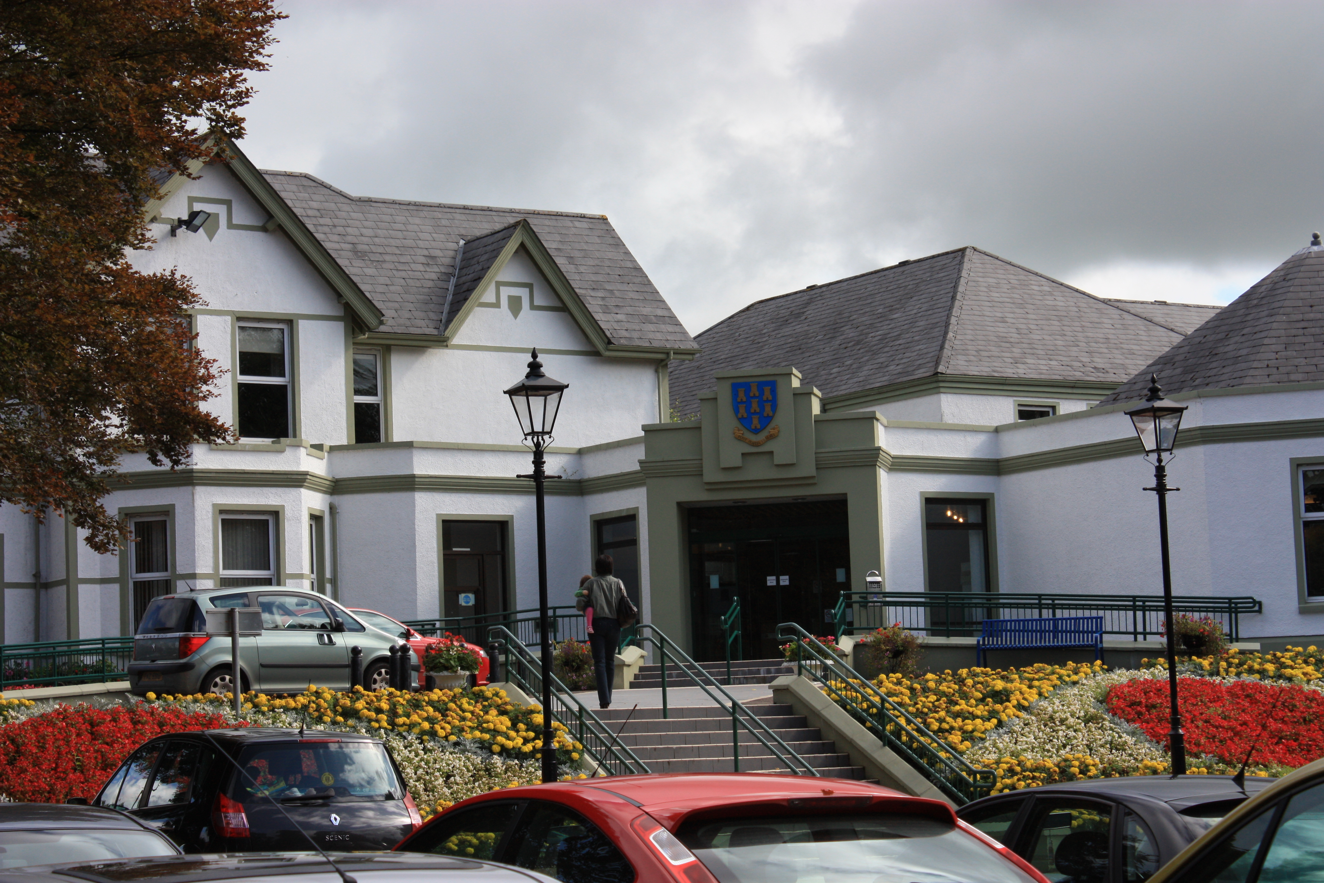 Ballymena Borough Council headquarters, Galgorm Road, Ballymena, County Antrim, Northern Ireland, September 2009